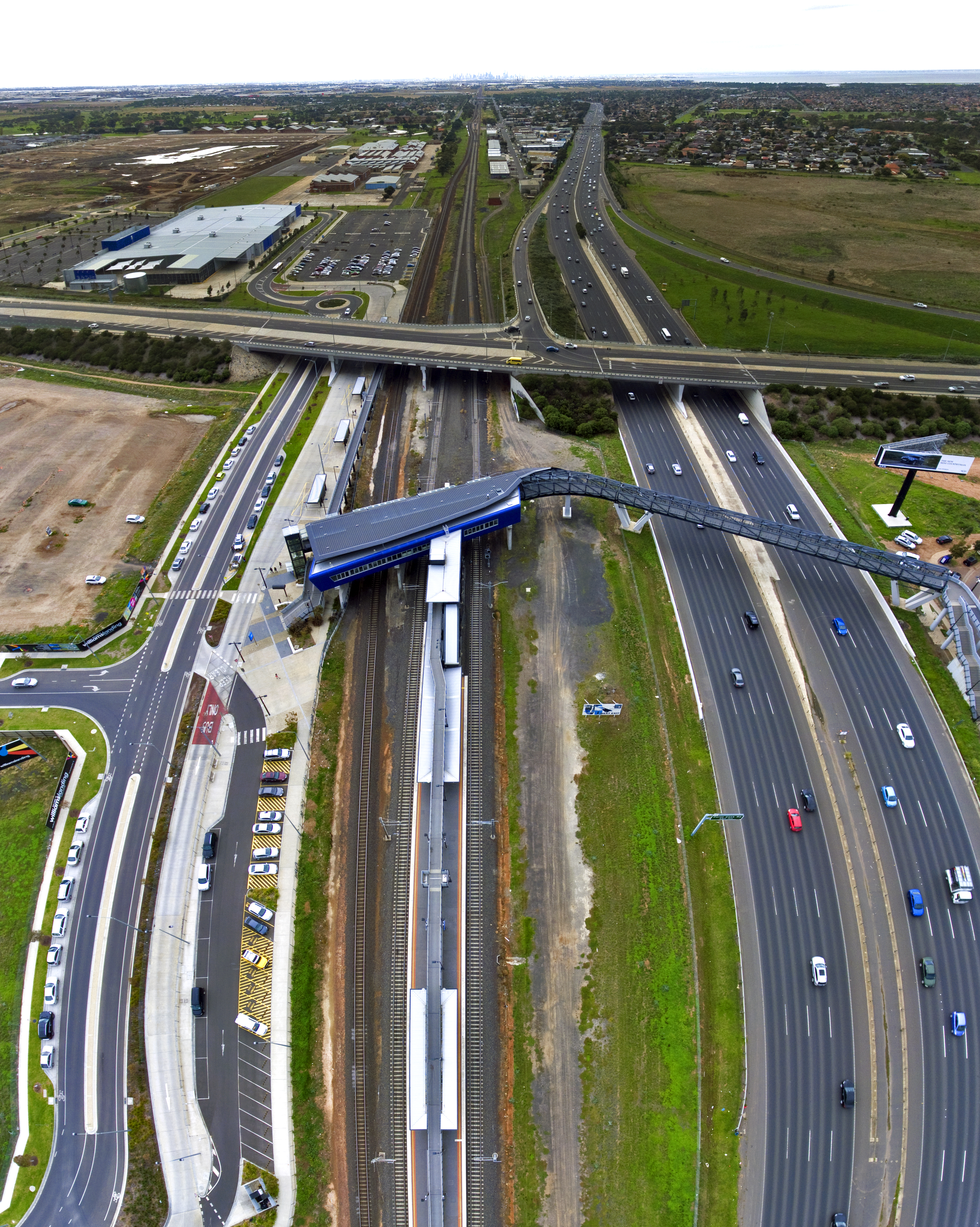 Williams Landing Train Station aerial vertical panorama